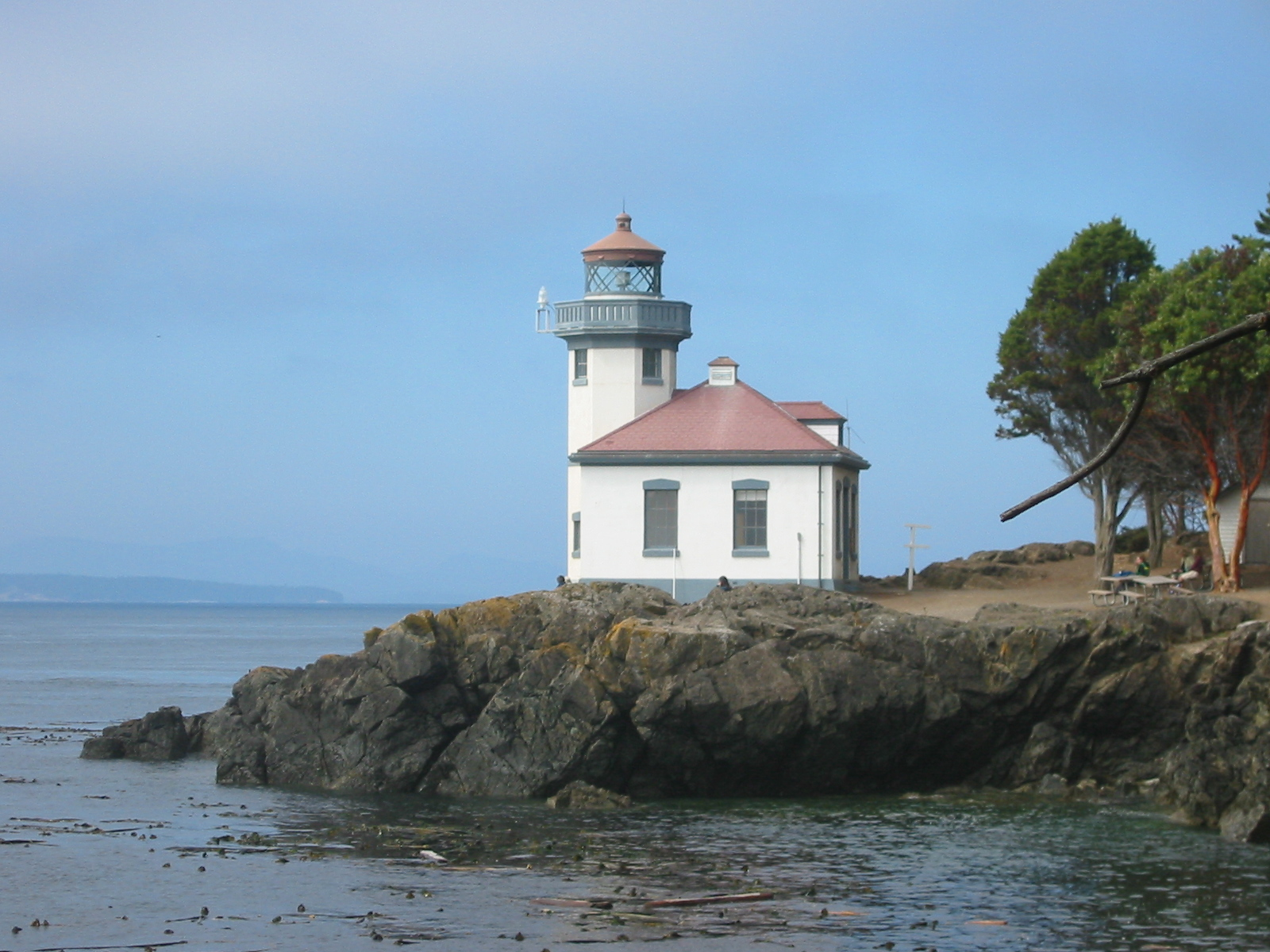 Lime Kiln Lighthouse, August 17, 2006.